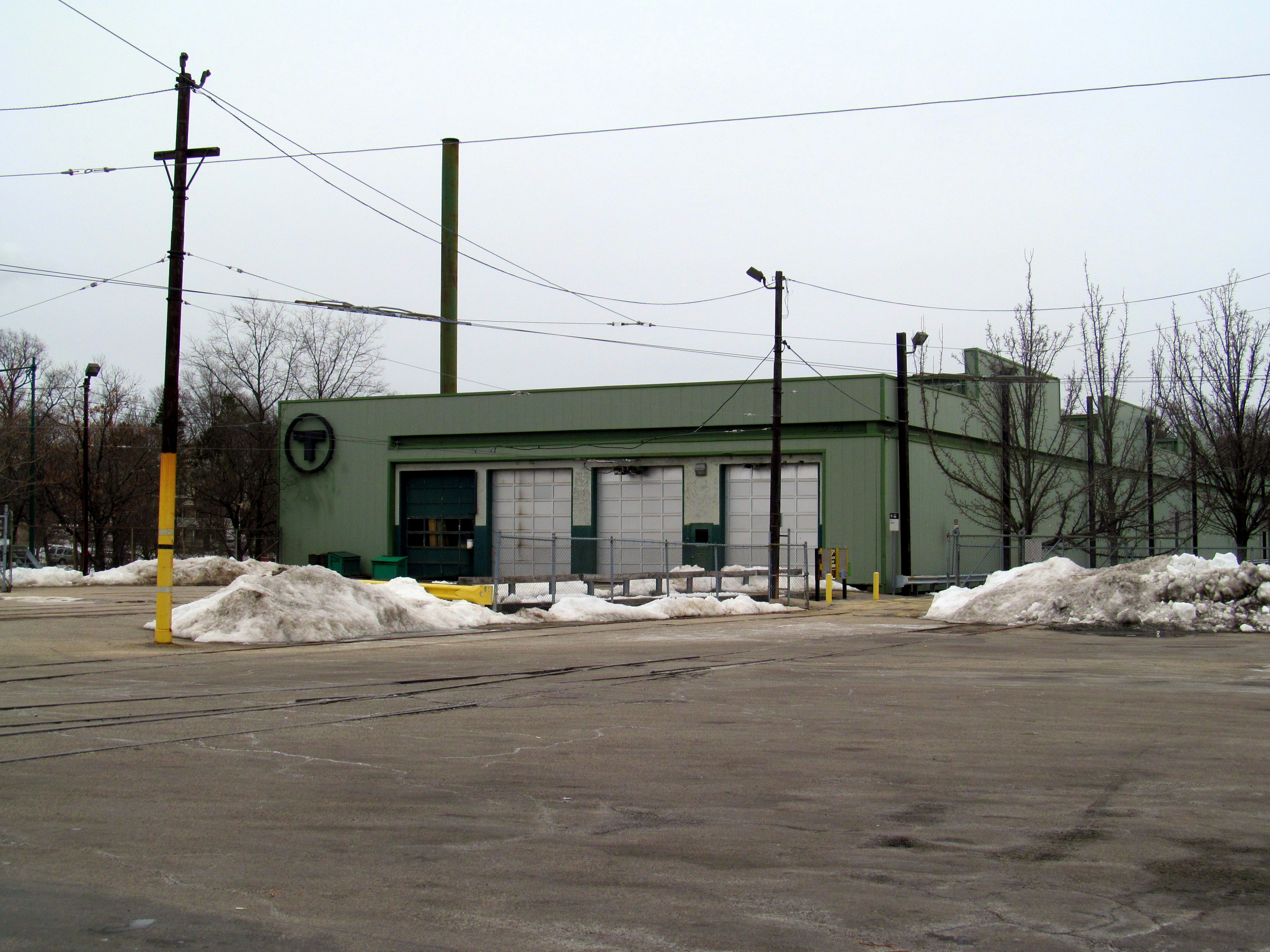 Watertown Carhouse in February 2013. Green Line tracks, unused since 1994, are visible in the pavement.